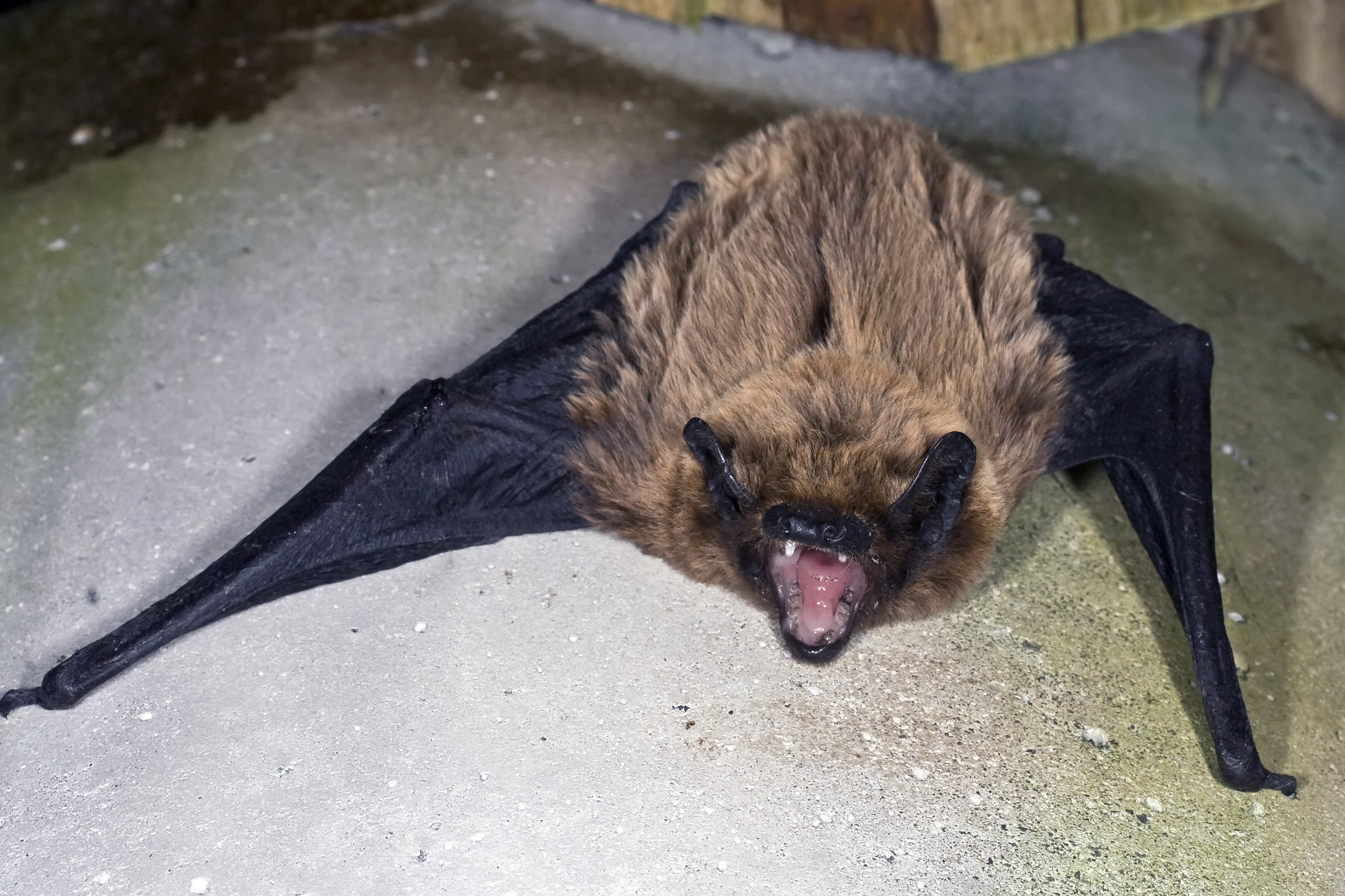 Adult specimen of Azores Noctule (Nyctalus azoreum)